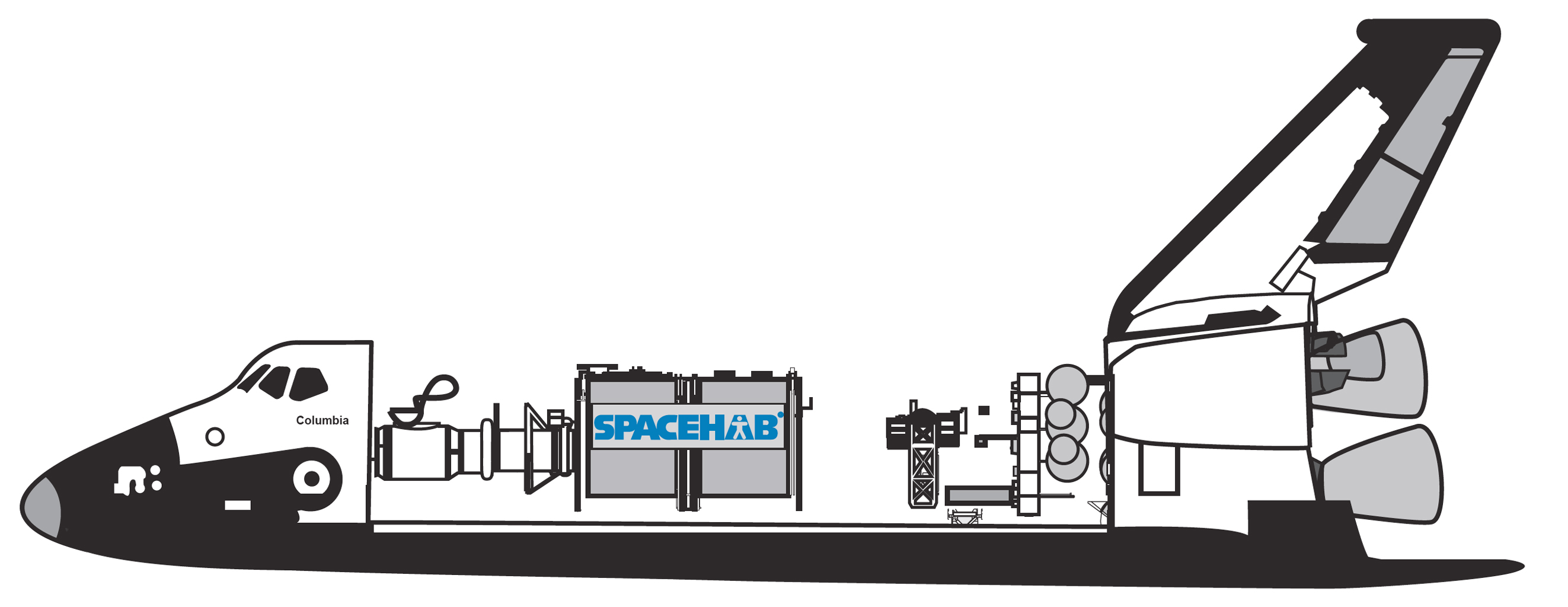 A diagram showing the payload bay configuration for STS-107, the twenty-eighth and final flight of the Space Shuttle Columbia (OV-102). In view (from left to right) are the SPACEHAB access tunnel, the SPACEHAB Research Double Module, the FREESTAR and OARE experiments (mounted to a Hitchhiker Multipurpose Equipment Support Structure), and the Extended Duration Orbiter (EDO) pallet.